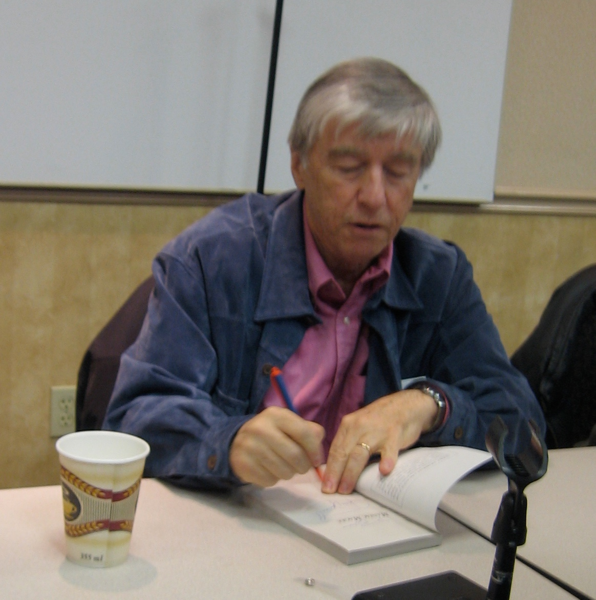 Derivative work (cropped) of a Jerry Spinelli picture. PaLA annual conference at the Valley Forge Convention Center, Pennsylvania, November 8-12th